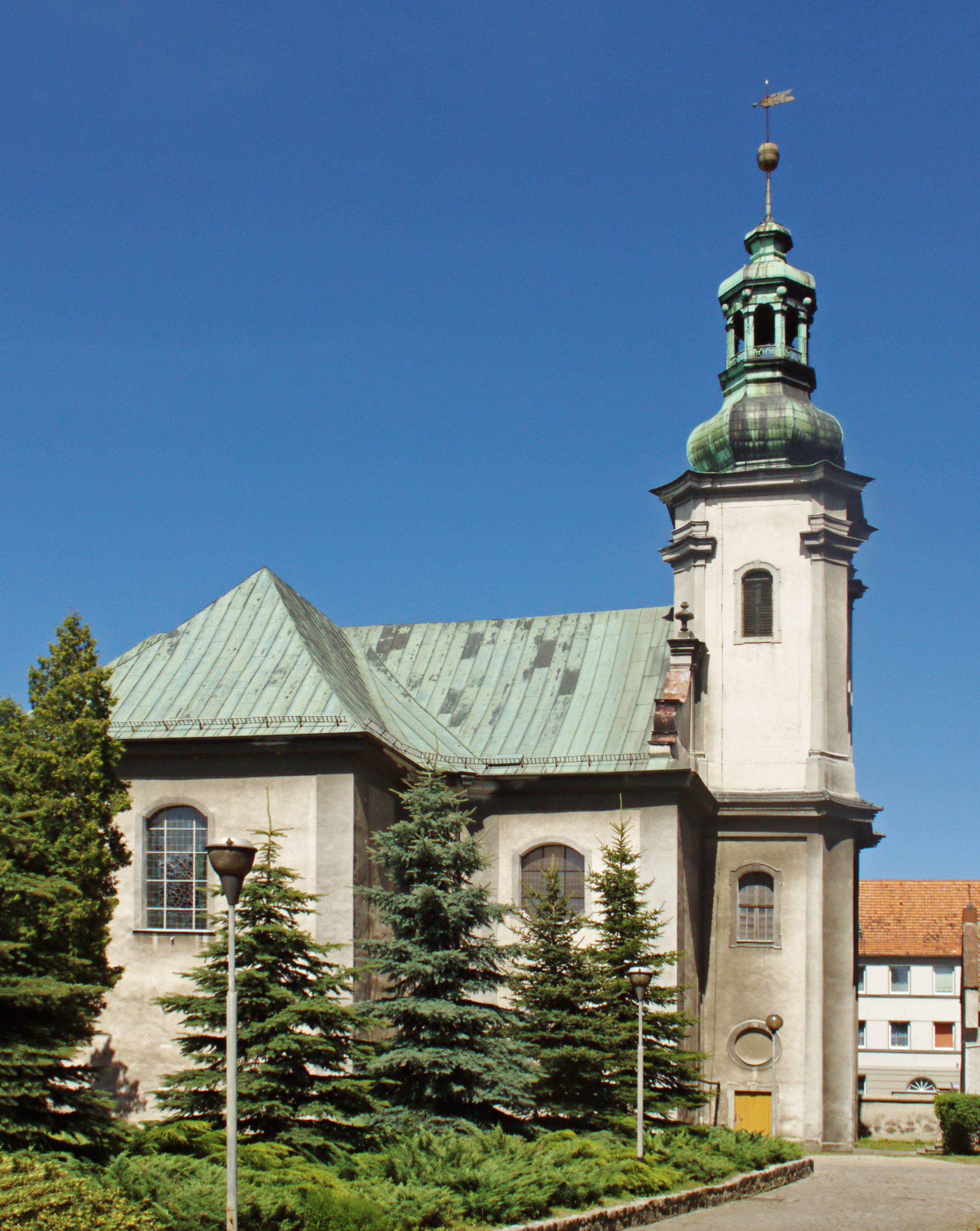 Saints Peter and Paul Church in Ziębice